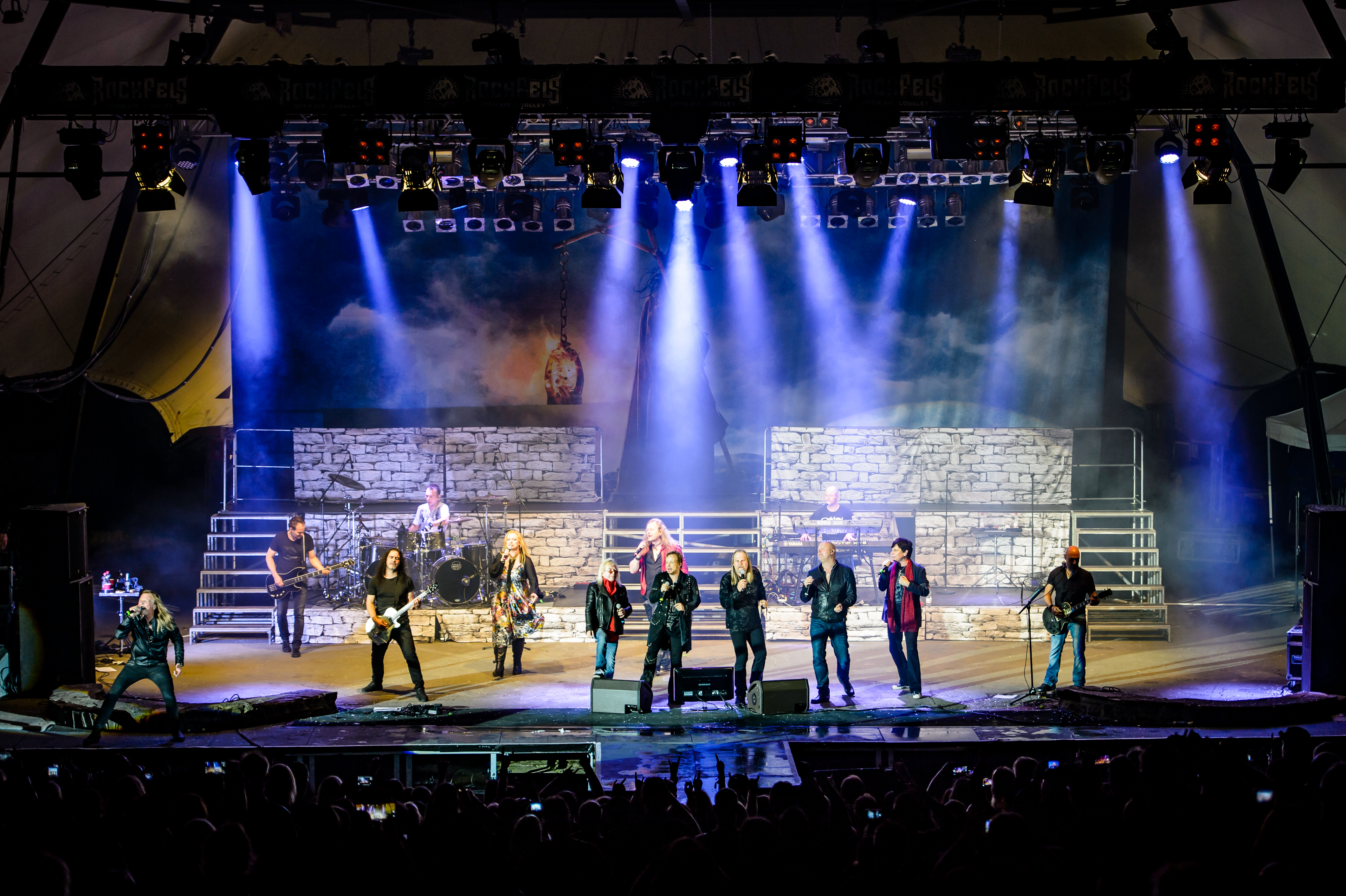 Avantasia; RockFels 2016 - Loreley